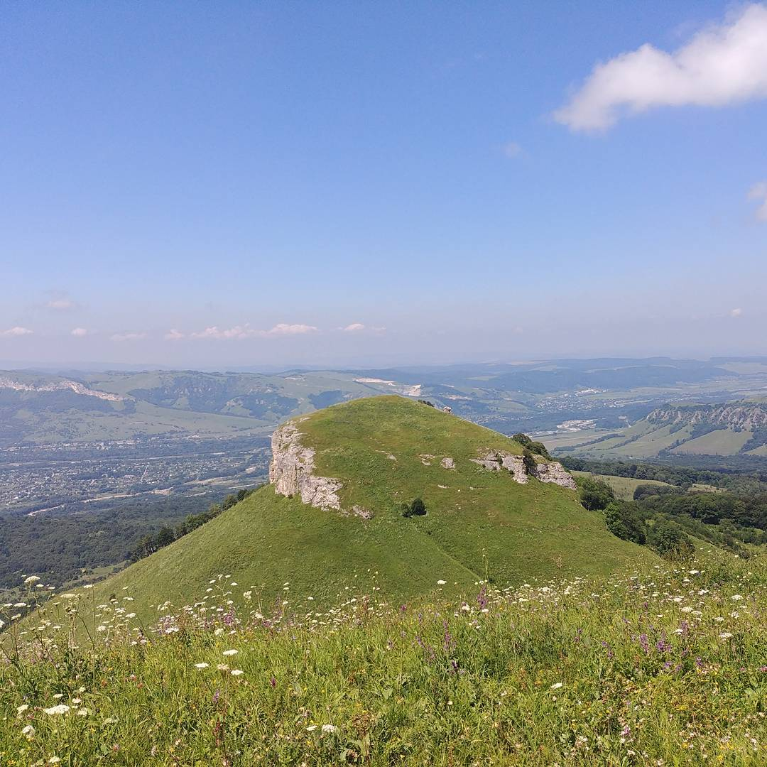 Psebay view